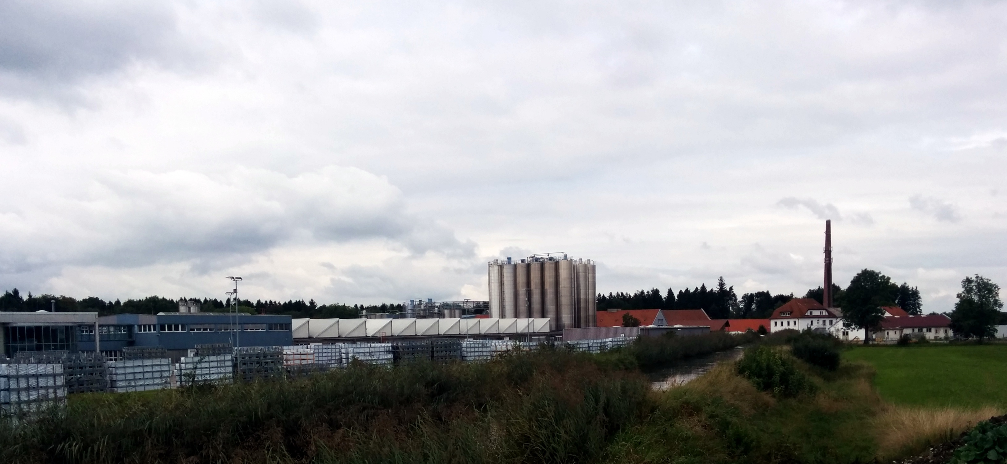 Mühlbach shortly before the Wertach river. In Background "Salamander Werke Türkheim" (Salamander fayctory) , one of the worlds biggest manufacturers of bonded leather